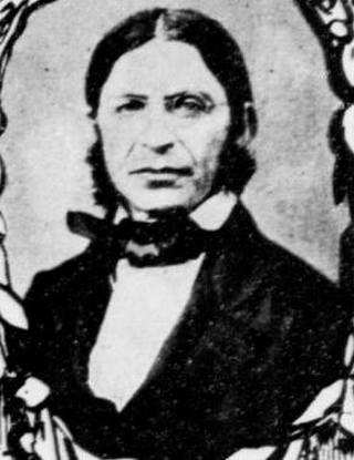 A photo of Abraham Geiger, taken sometime before his 1874 death.